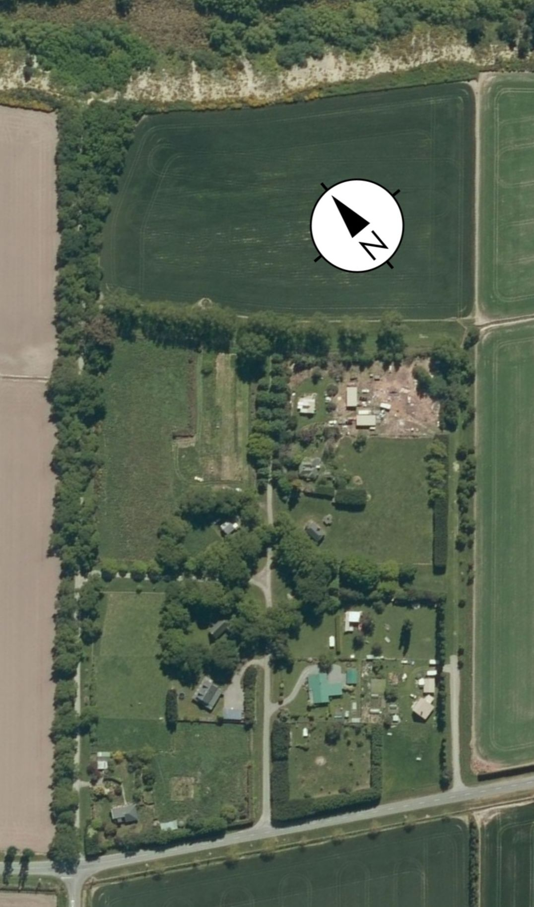 Aerial photograph of Barrhill, New Zealand, flown in the summer of 2013/13.